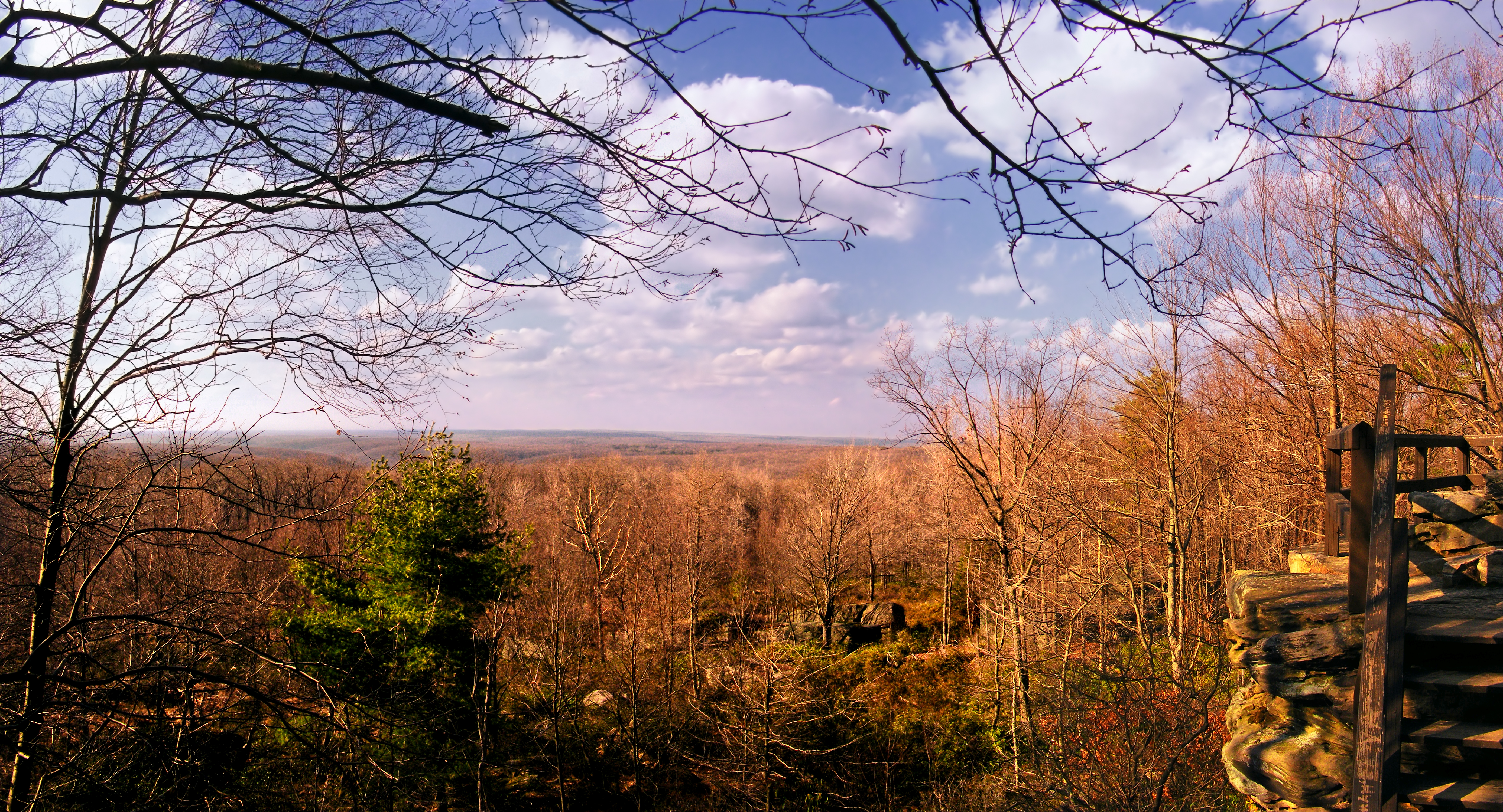 Northerly view from Beartown Rocks, Clear Creek State Forest, Jefferson County, Pennsylvania